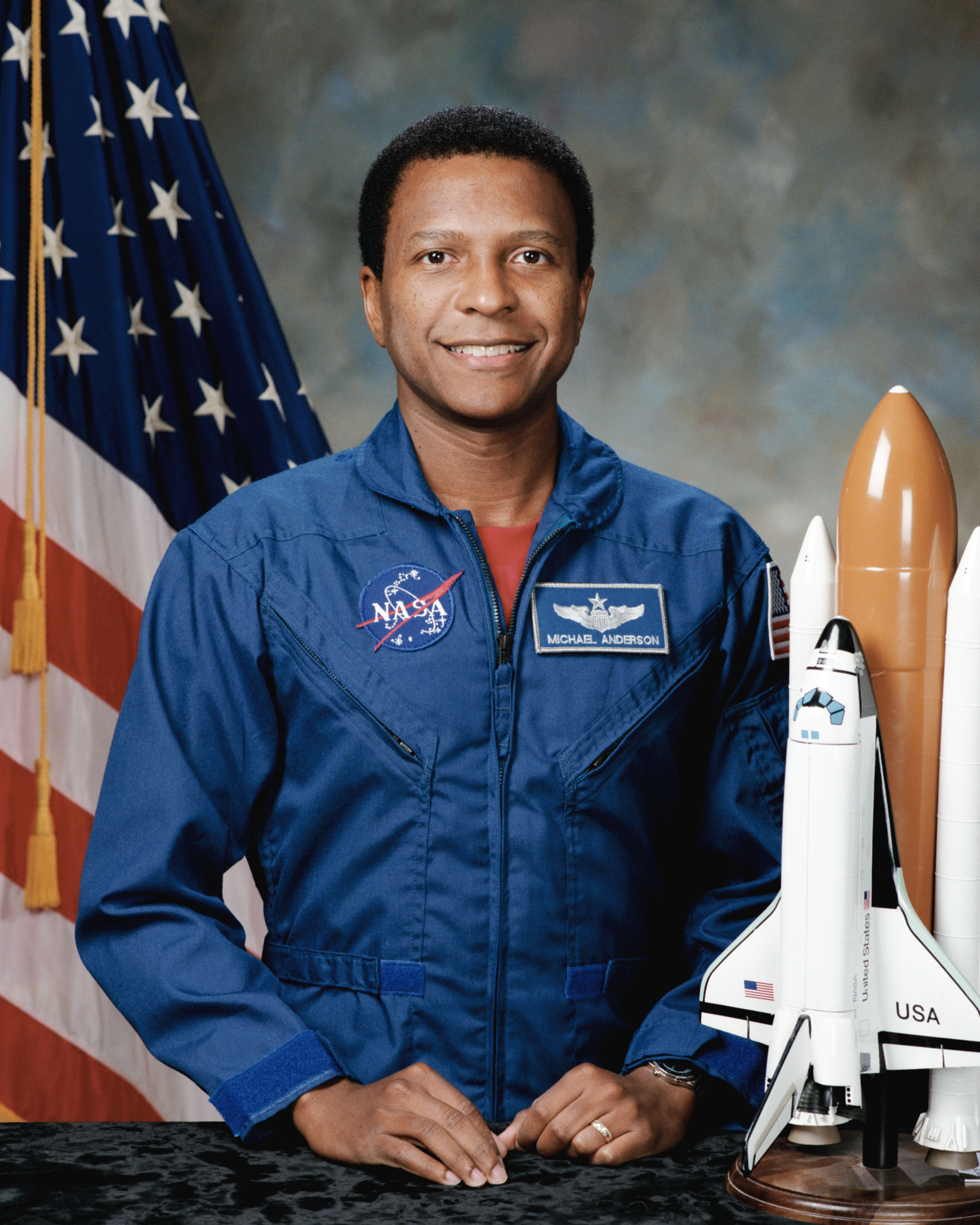 Astronaut Michael P. Anderson, payload commander. Died during the failed re-entry attempt of the Space Shuttle Columbia.